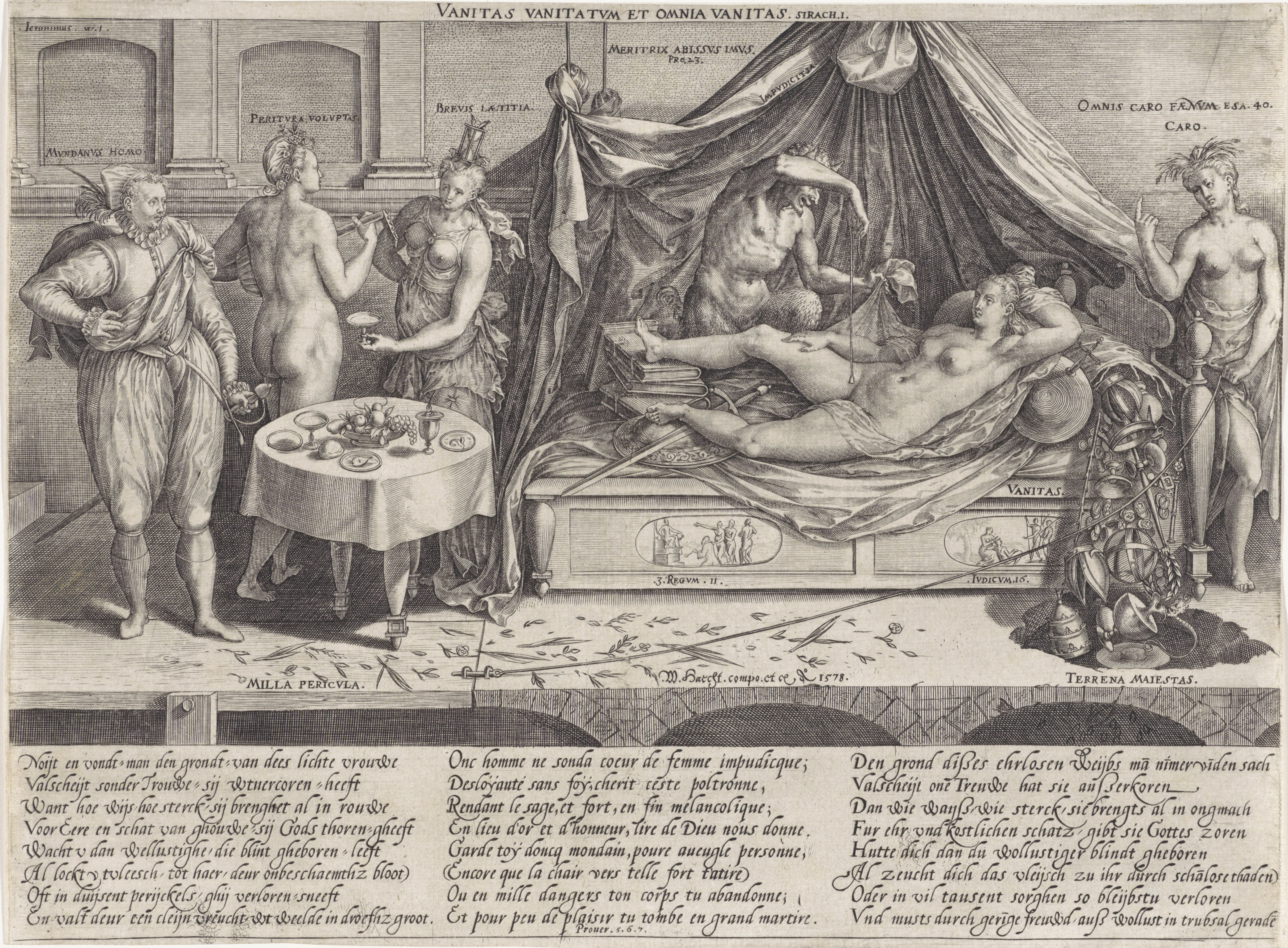 Allegory on the vanity of man. A naked woman (Vanitas) is lying on a four-poster bed, she is being watched by Unchastity (Impudicitia), a satyr who pulls off the sheet and lets a plummet commute near her pubic area. Under her feet are attributes of science and martial art. Beneath her pillow lie earthly resources that fall from the bed and disappear through a hole in the floor. On the far left is a man, the Worldly Man (Mundanus Homo), who has been exposed to the seductive naked women in the room. Next to him the Deciduous Lust (Peritura Voluptas) and Ephemeral Joy (Brevis Laetitia). On the far right is the Physical Lust (Caro), she holds a rope in her hand that is tied to a trap door on which the man stands. The representation is clarified in the Dutch, French and German captions in the margin. Print published in Antwerp by Willem van Haecht who also composed the text. Engraved by Hieronymus Wierix after design by Ambrosius Francken (I).